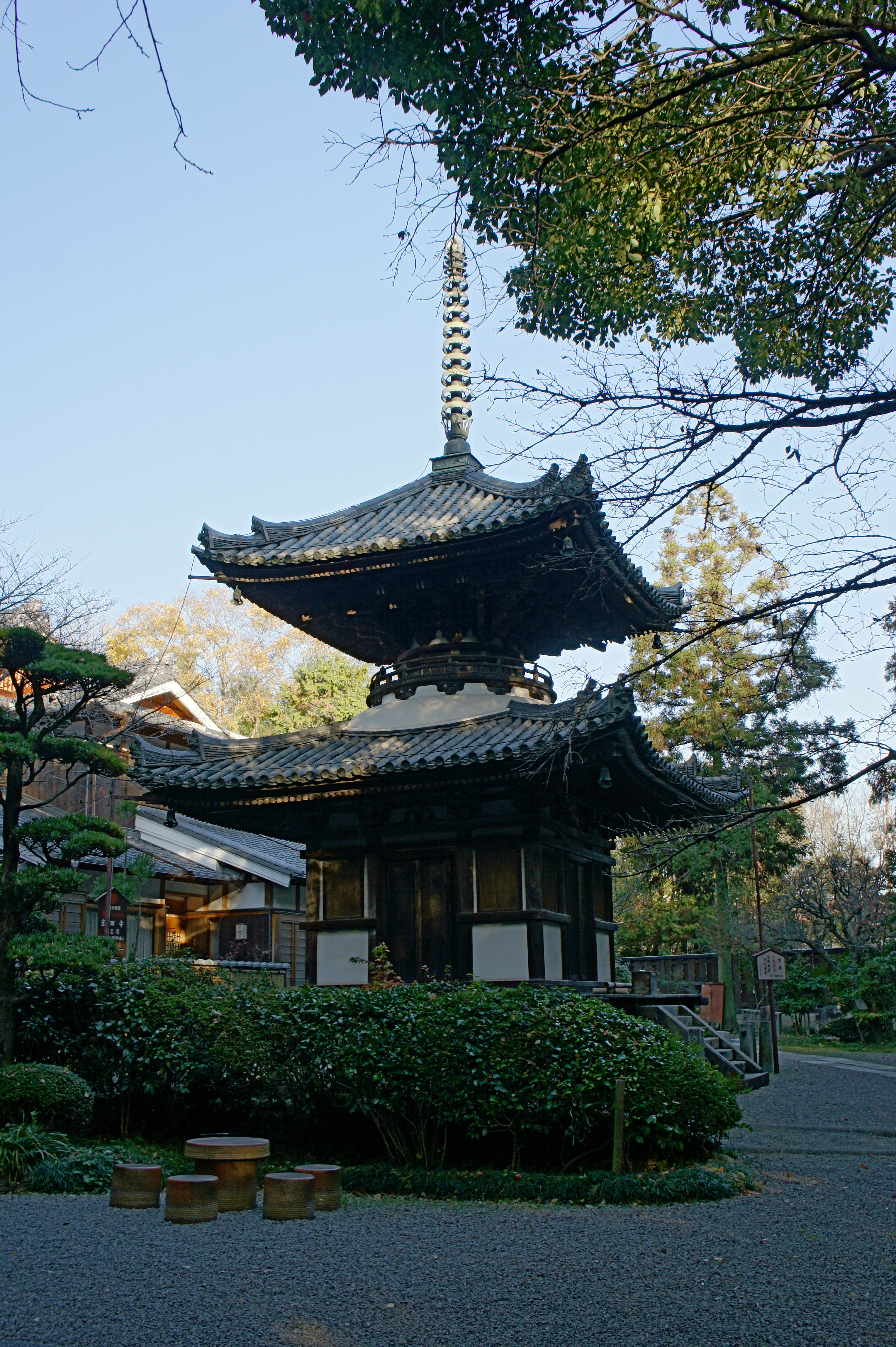 Kichiden-ji is a Buddhist temple in Ikaruga, Nara prefecture, Japan.